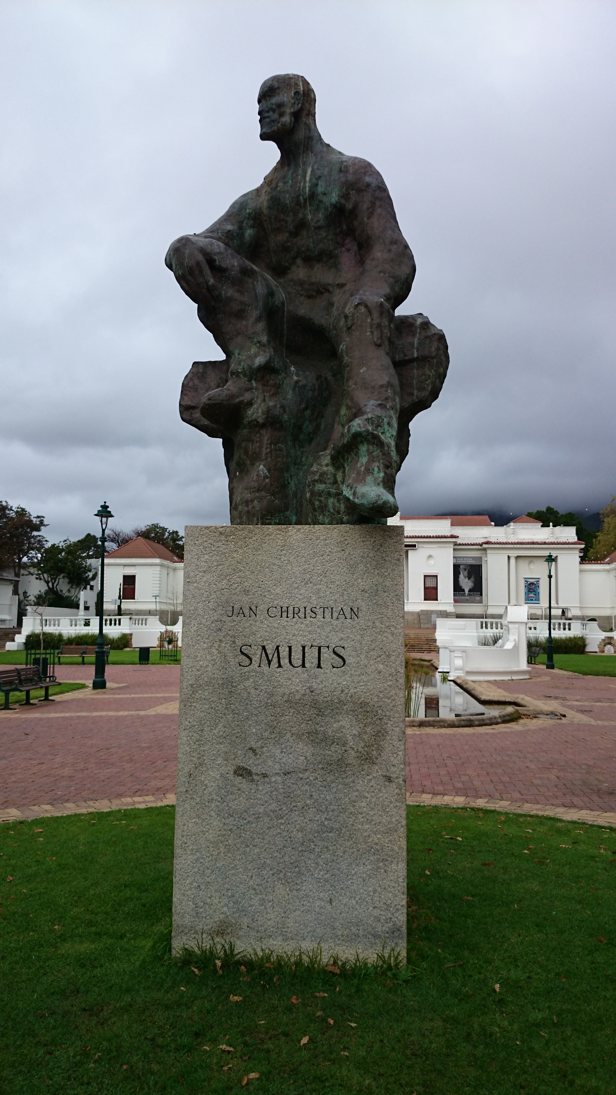 Jan Christian Smuts Statue at Iziko South African Museum